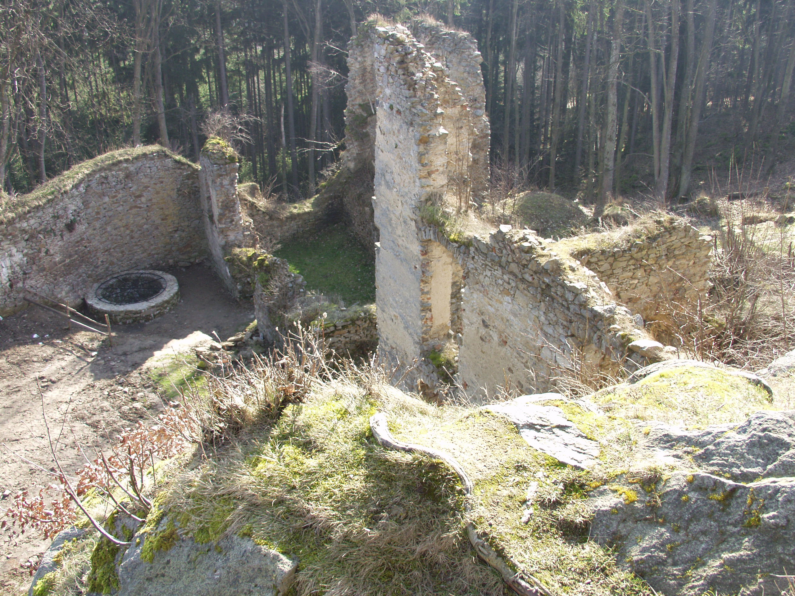 Remains of palaces of Šelmberk Castle ruin, Tábor District, Czech Republic.